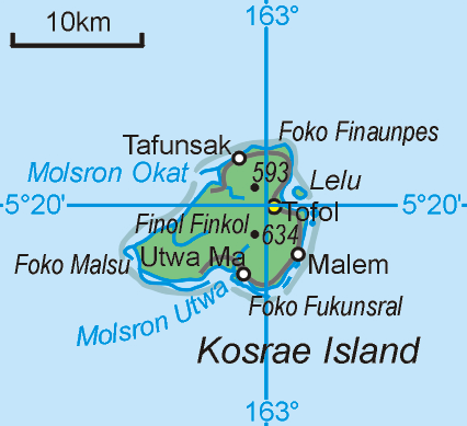 Map of Kosrae State, Micronesia. Author: Aotearoa from Poland